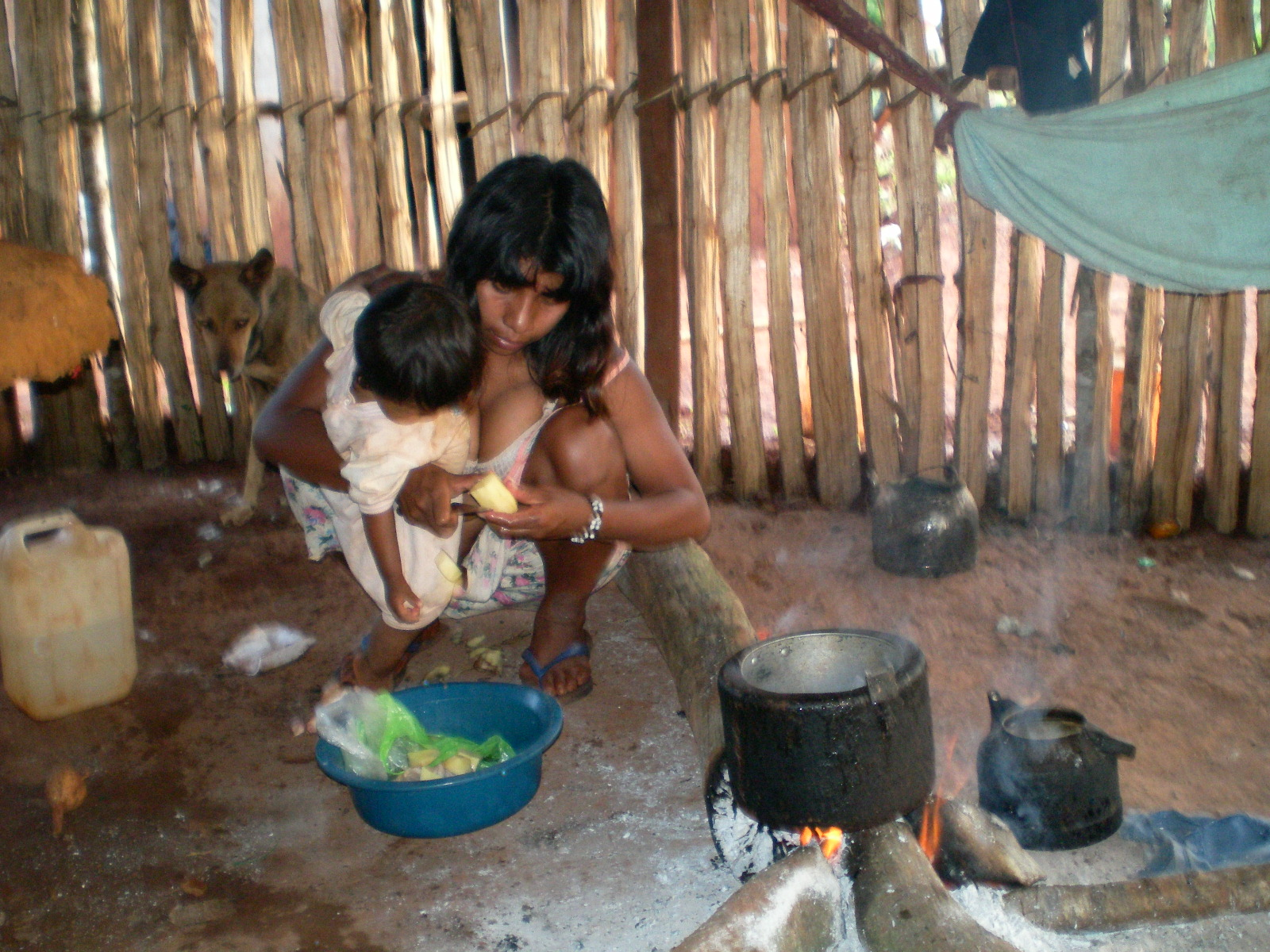 Kitchen in the tribal village of Yiriapu (Misiones-Argentina)